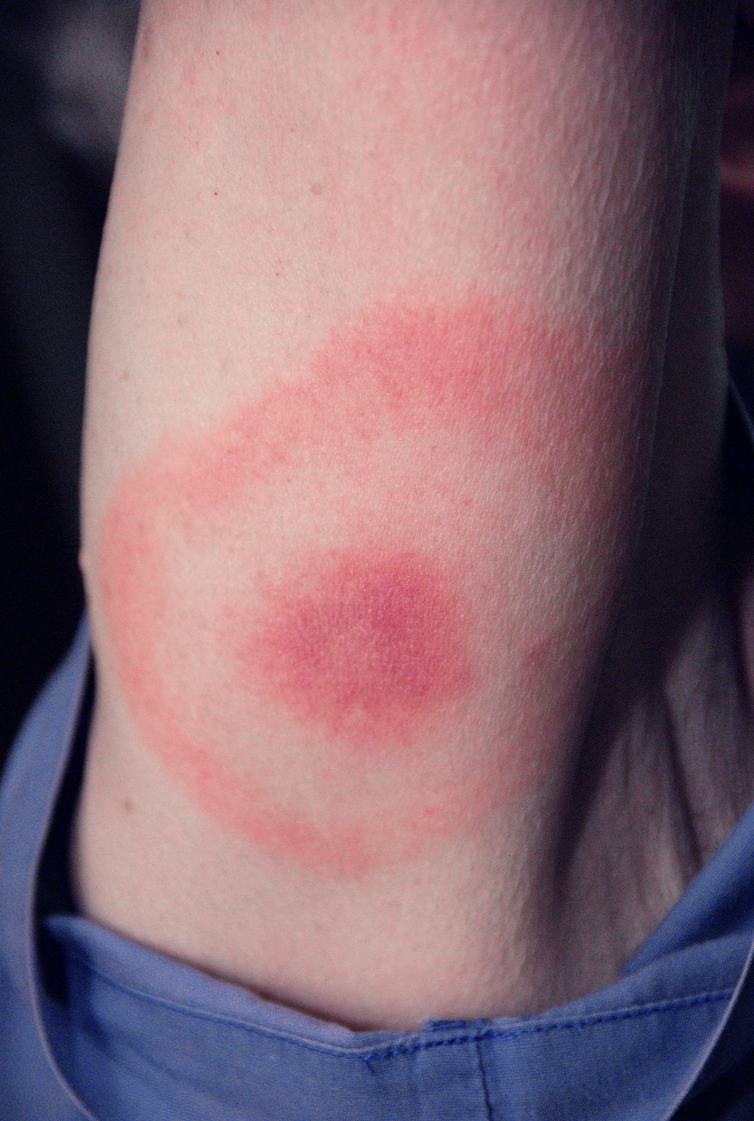 The pathognomonic erythematous rash in the pattern of a bull’s-eye (erythema migrans). The rash manifested at the site of a tick bite, on this Maryland woman’s posterior upper arm, signifying a case of Lyme disease, caused by the bacterium Borrelia burgdorferi, and transmitted to humans, by the bite of infected blacklegged ticks.